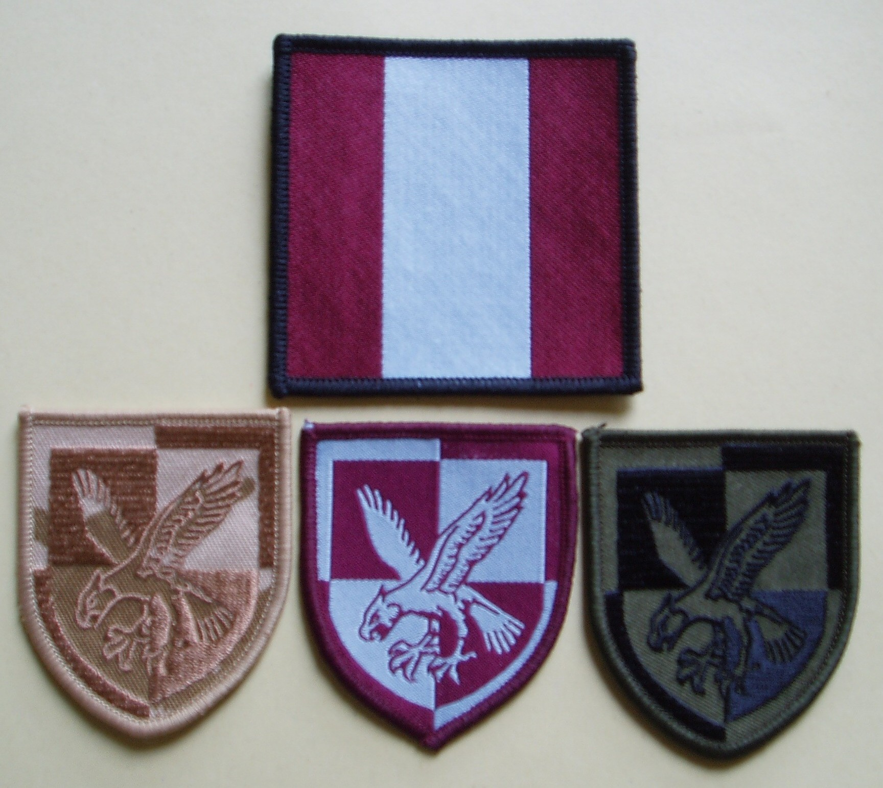 Author is C.E.Dowie. This is a picture of a 16th Air Assault Brigade patches and Drop Zone patch taken from my collection of military badges.